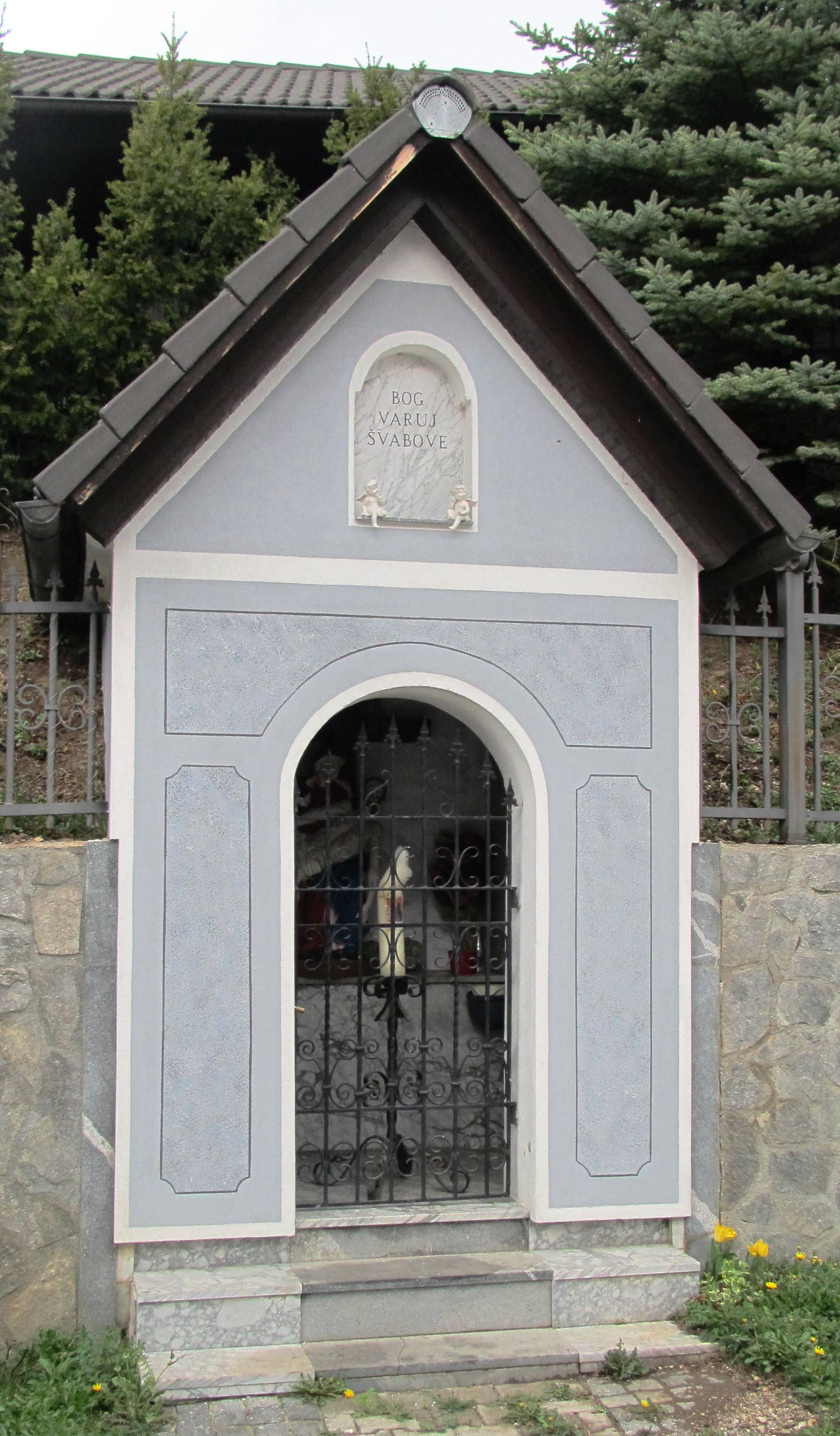 Križevec, Municipality of Zreče, Slovenia: example of a closed chapel-shrine.